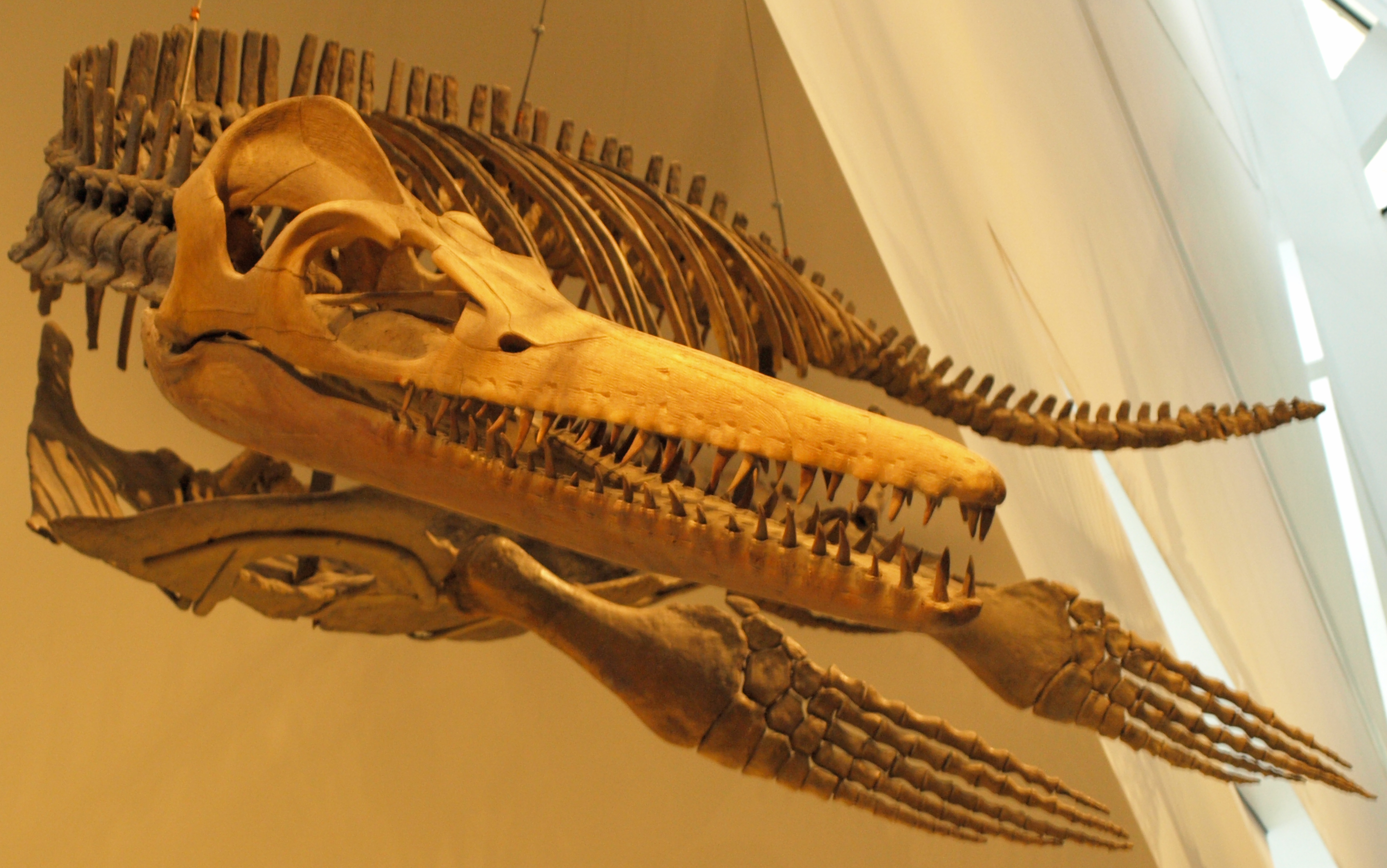 Trinacromerum on display at the Royal Ontario Museum, Toronto.